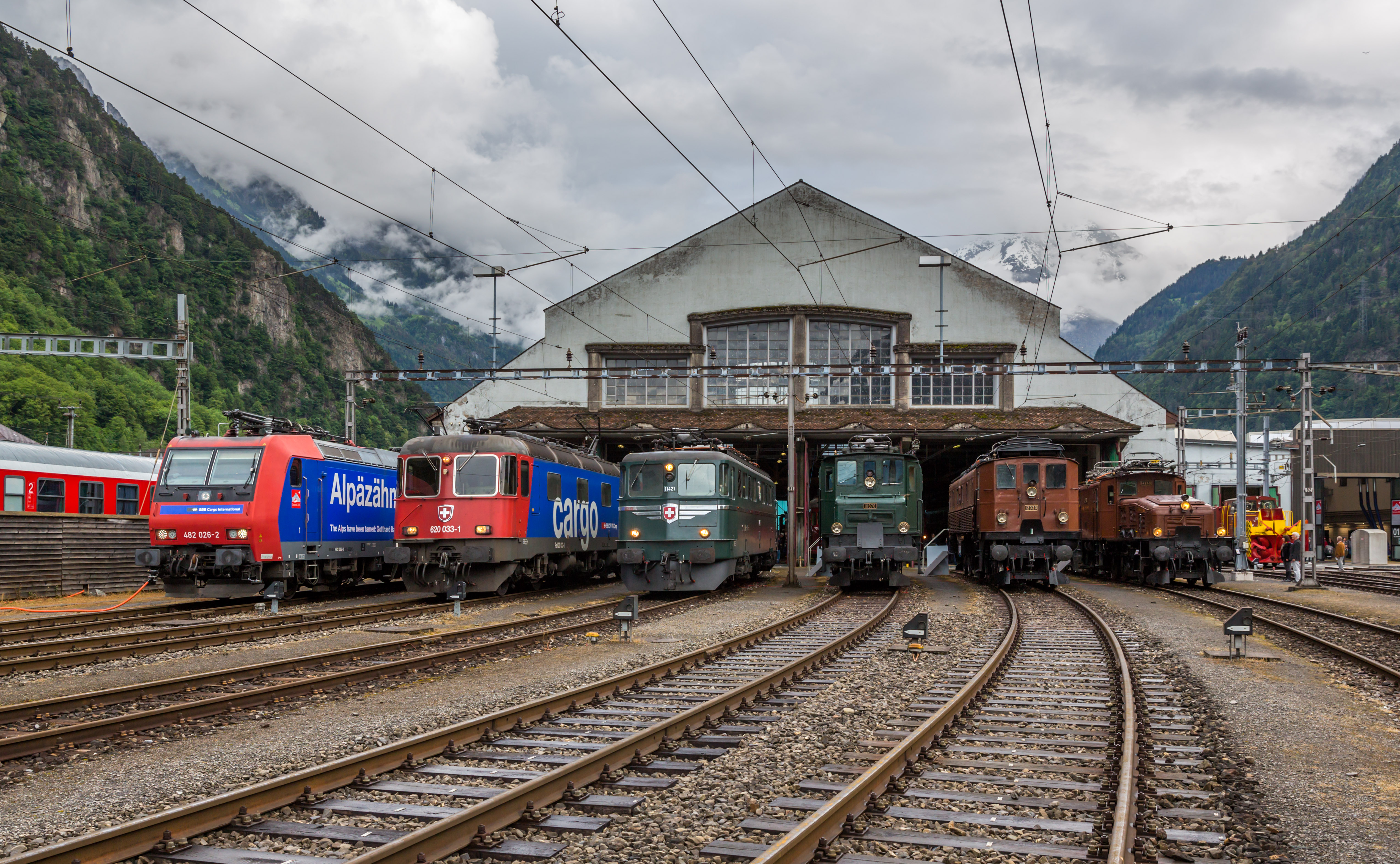 SBB locomotives in front of the depot at Erstfeld, Switzerland. From left to right: Re 482 026, Re 620 033, Ae 6/6 11421, Ae 4/7 10976, Be 4/6 12320, Ce 6/8 II 14253.